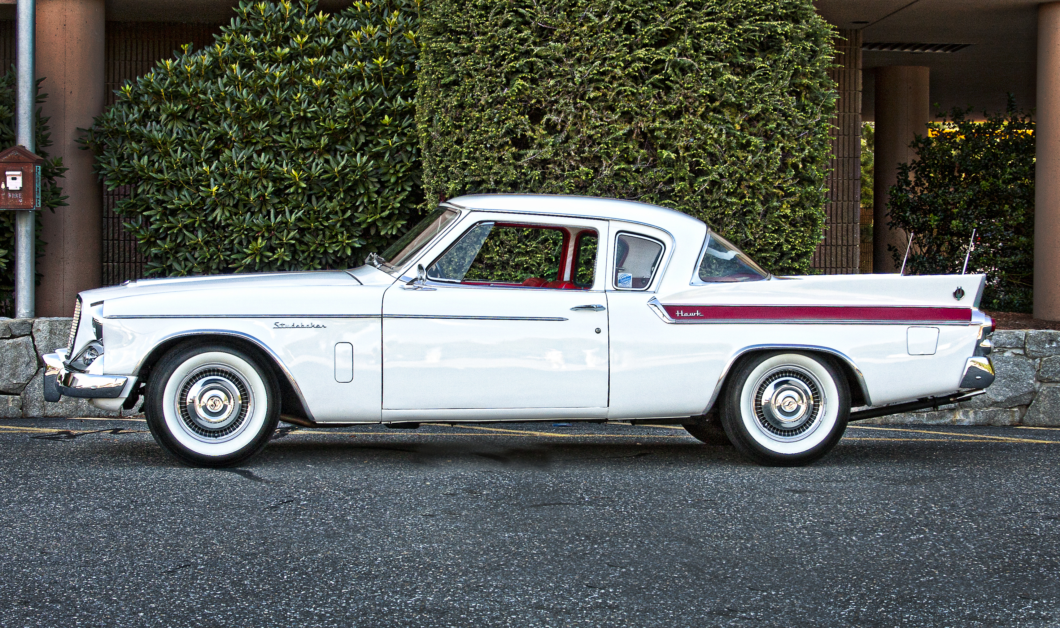 White 1961 Studebaker Hawk.